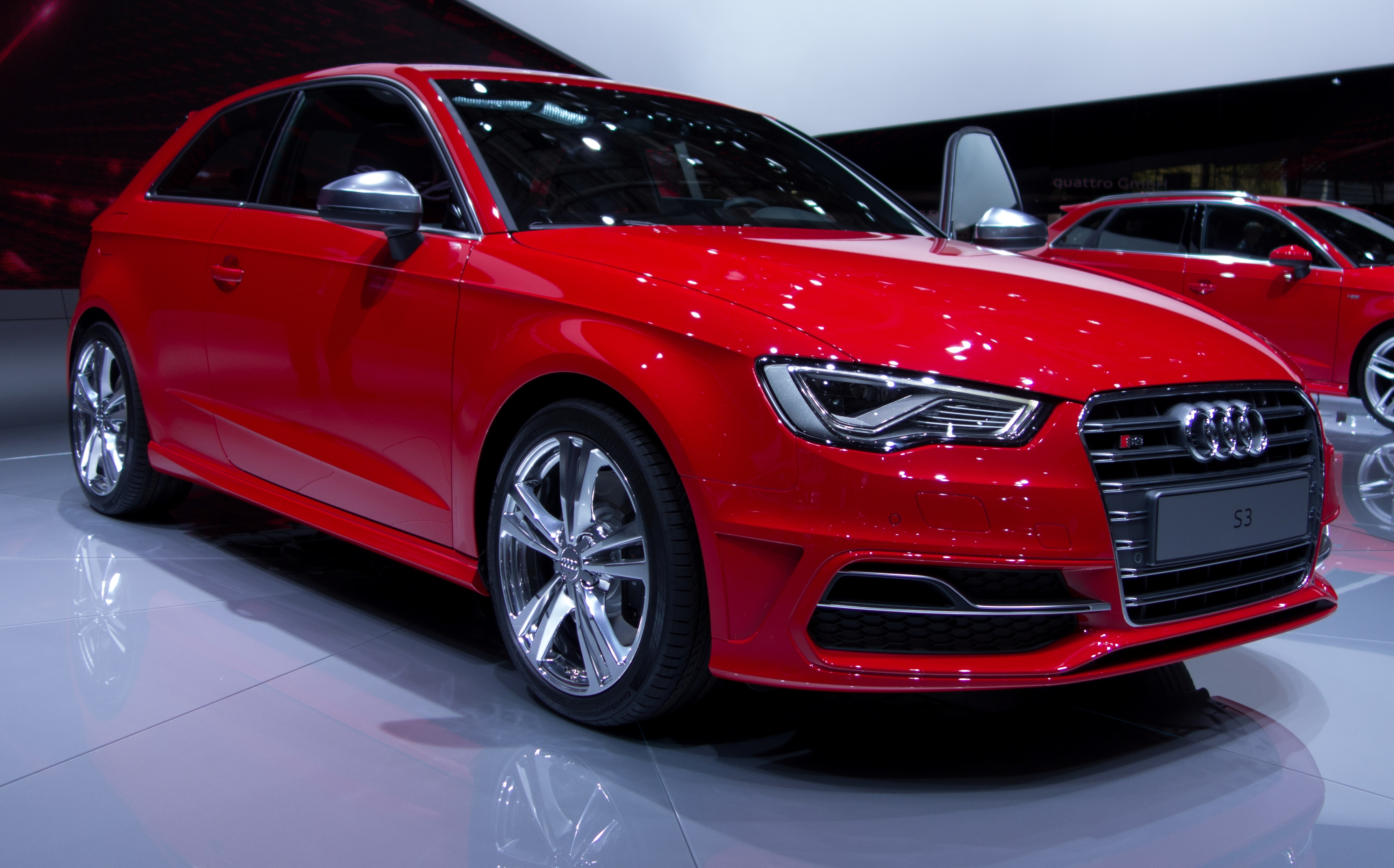 Audi S3 8V